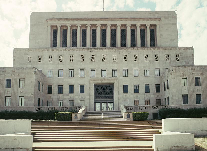 View of the Fort Worth Masonic Temple from Henderson Street in Fort Worth, Texas